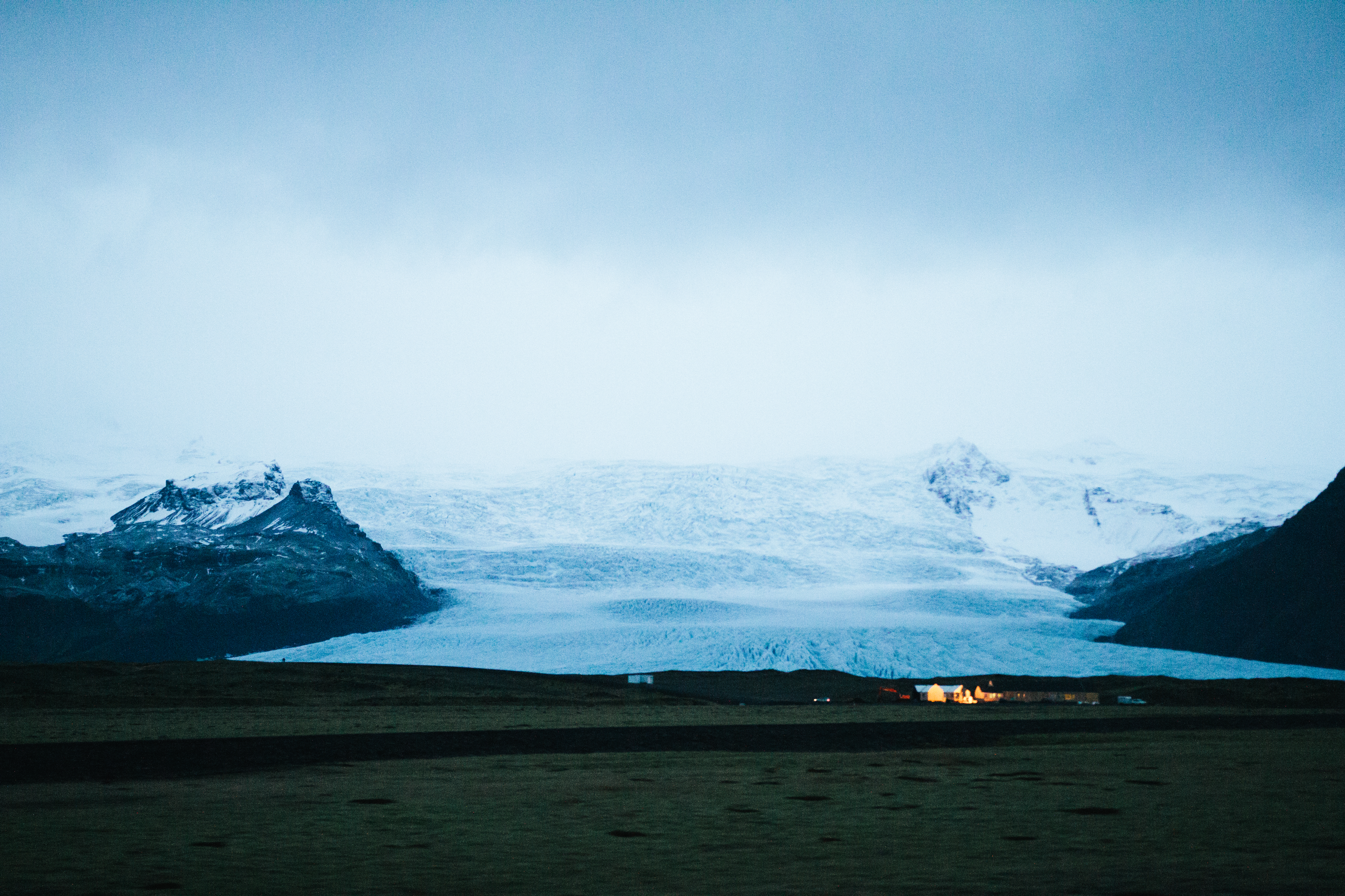 Iceland